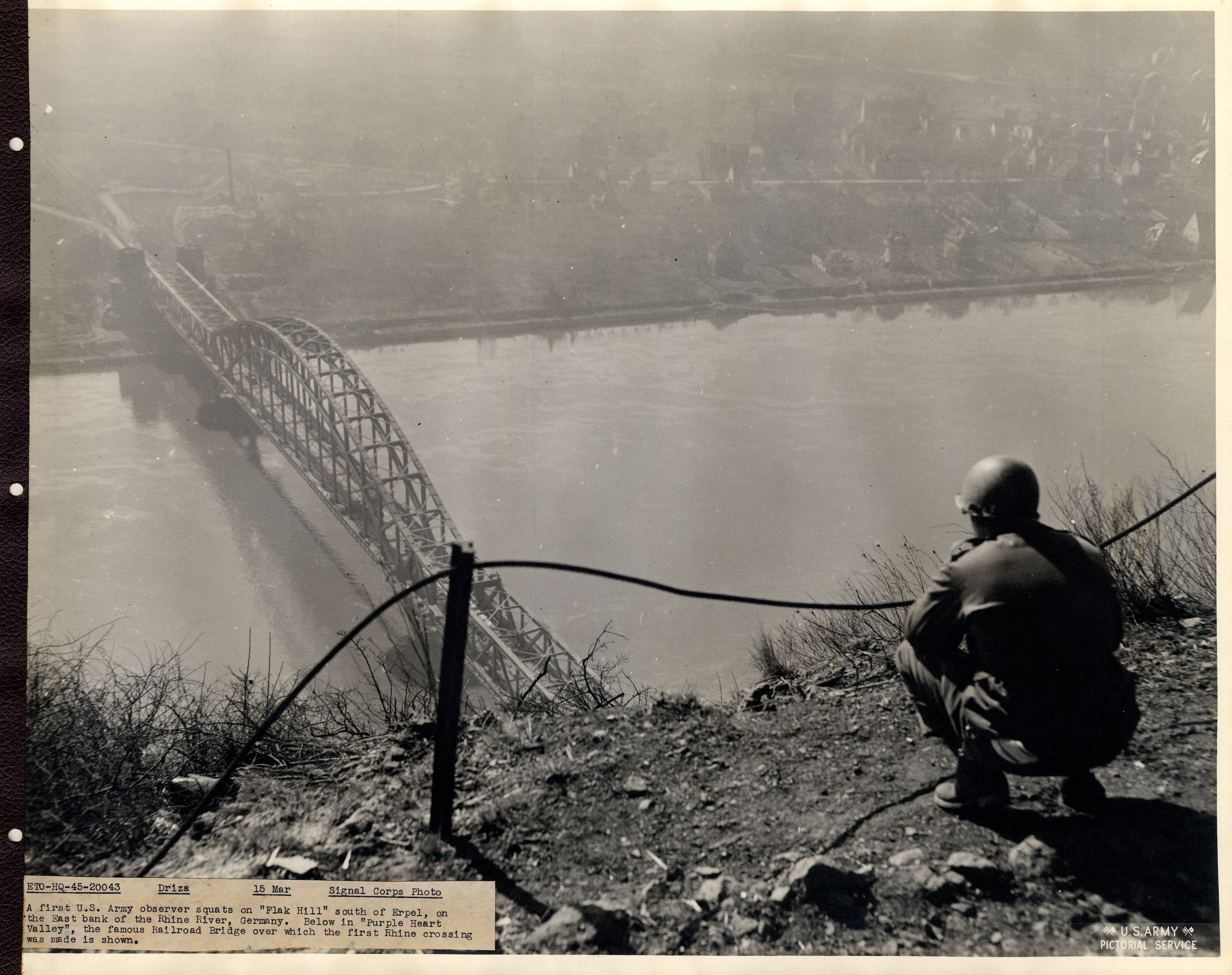 A view of Ludendorff Bridge from the top of Erpeler Ley. Dan Feltner, 656 Tank Destroyer (TD) Battalion Co. C.. overlooks the bridge